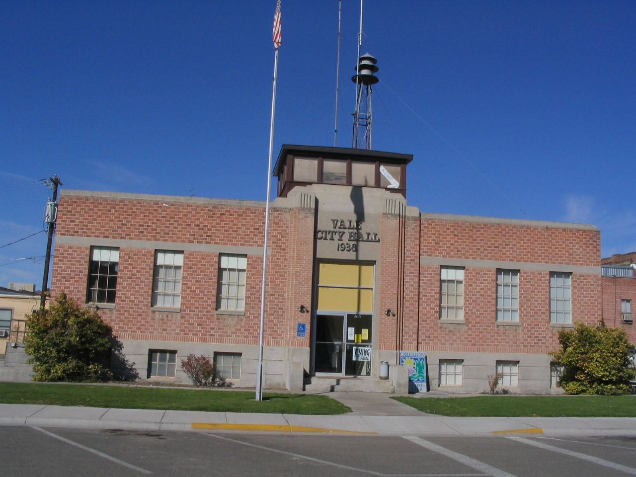 Vale is a city in Malheur County, Oregon, United States, about 12 miles (19 km) west of the Idaho border. It is at the intersection of U.S. Routes 20 and 26, on the Malheur River at its confluence with Bully Creek. Vale was selected as Malheur's county seat in 1955, 68 years after the county was founded. As of the 2010 census, the city had a total population of 1,874, down from 1,976 in 2000. Vale is part of the Ontario, OR–ID Micropolitan Statistical Area. The community was the first stop in Oregon along the Oregon Trail. A post office with the name of Vale was established in February 1883, and the community was incorporated by the Oregon Legislative Assembly on February 21, 1889.[8] Originally incorporated as the Town of Vale, it became the City of Vale in 1905.